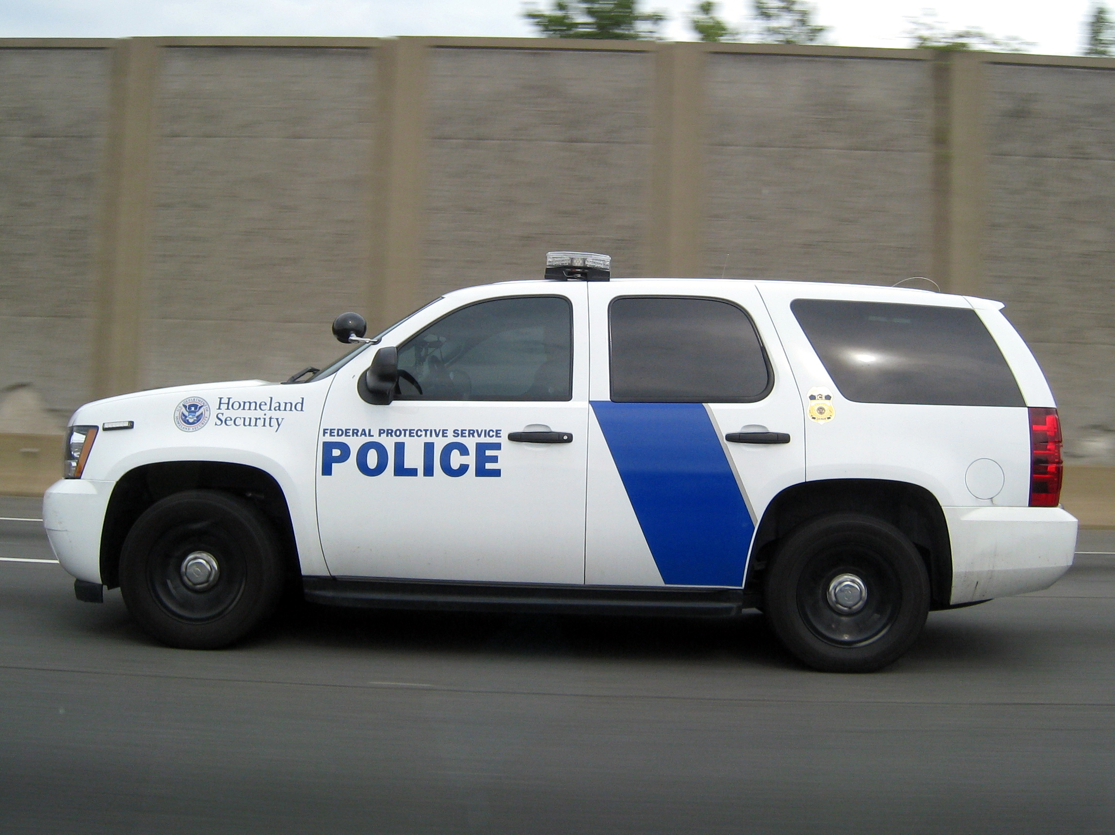 A United States Federal Protective Service vehicle, based on the GMT900 Chevrolet Tahoe. Photographed on Interstate 95 near Newington on July 27, 2010.